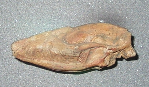 Asioryctes nemegtensis, one of the earliest placental mammals. Mesozoic mammals from the Gobi Desert. Museum of Evolution, Warsaw.